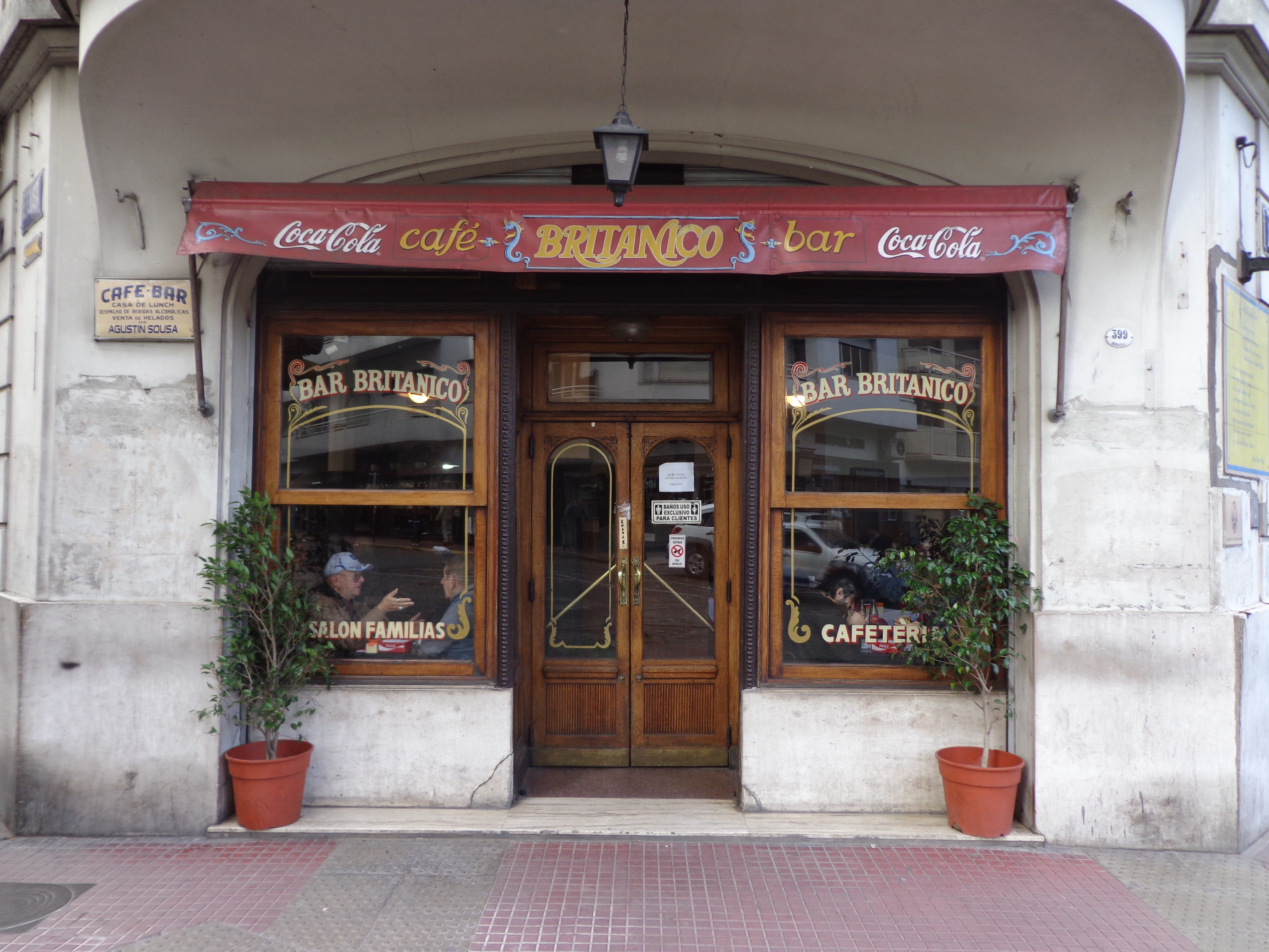 Entrance to Bar Británico, on Brasil 399, San Telmo, Buenos Aires. Established in 1928, the bar served as a location for numerous Argentine films such as Tacos altos (1985) and Donde estás amor de mi vida, que no te puedo encontrar? (1992).